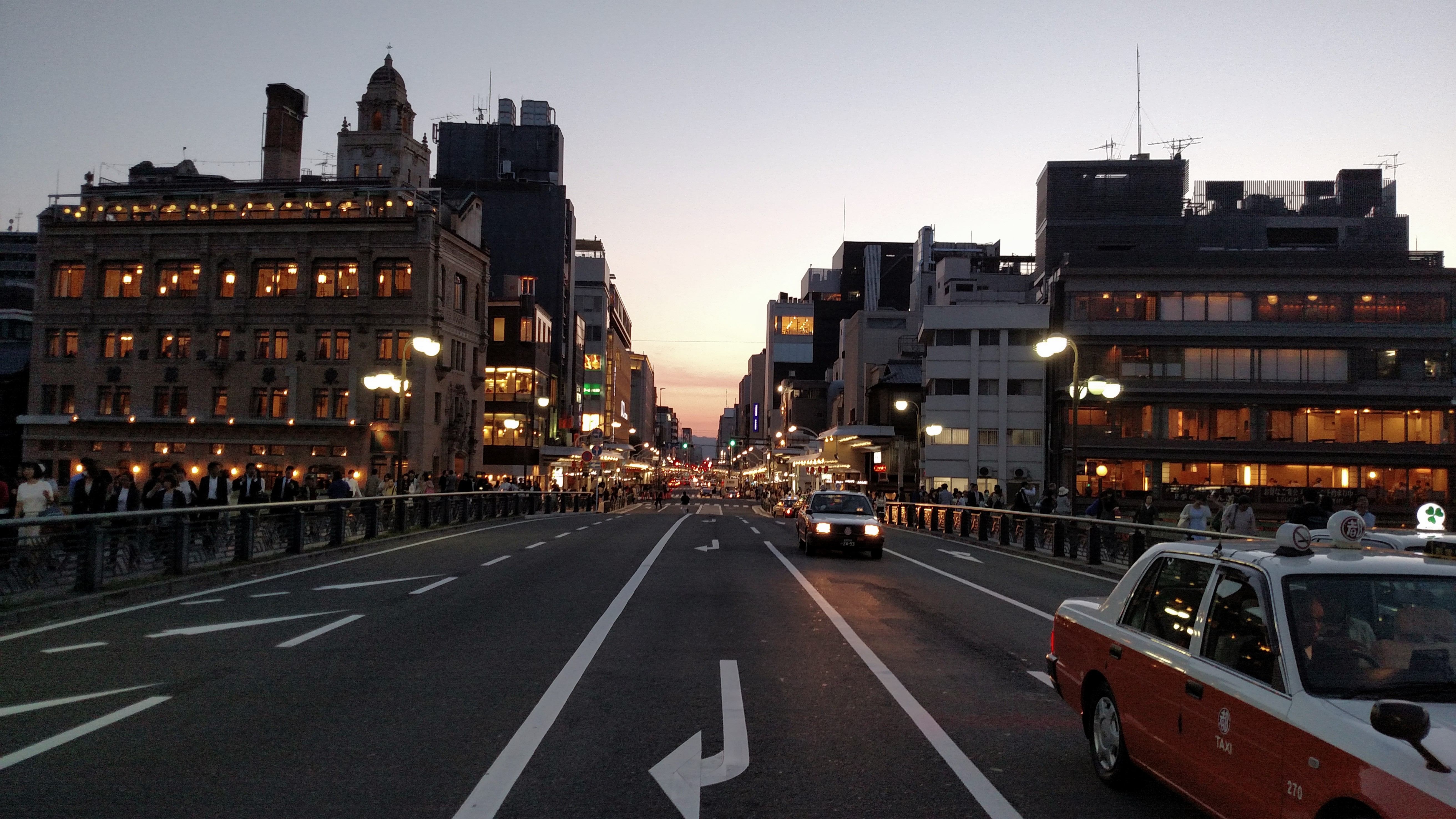 四条京阪前（バス）, Kyoto, Japan